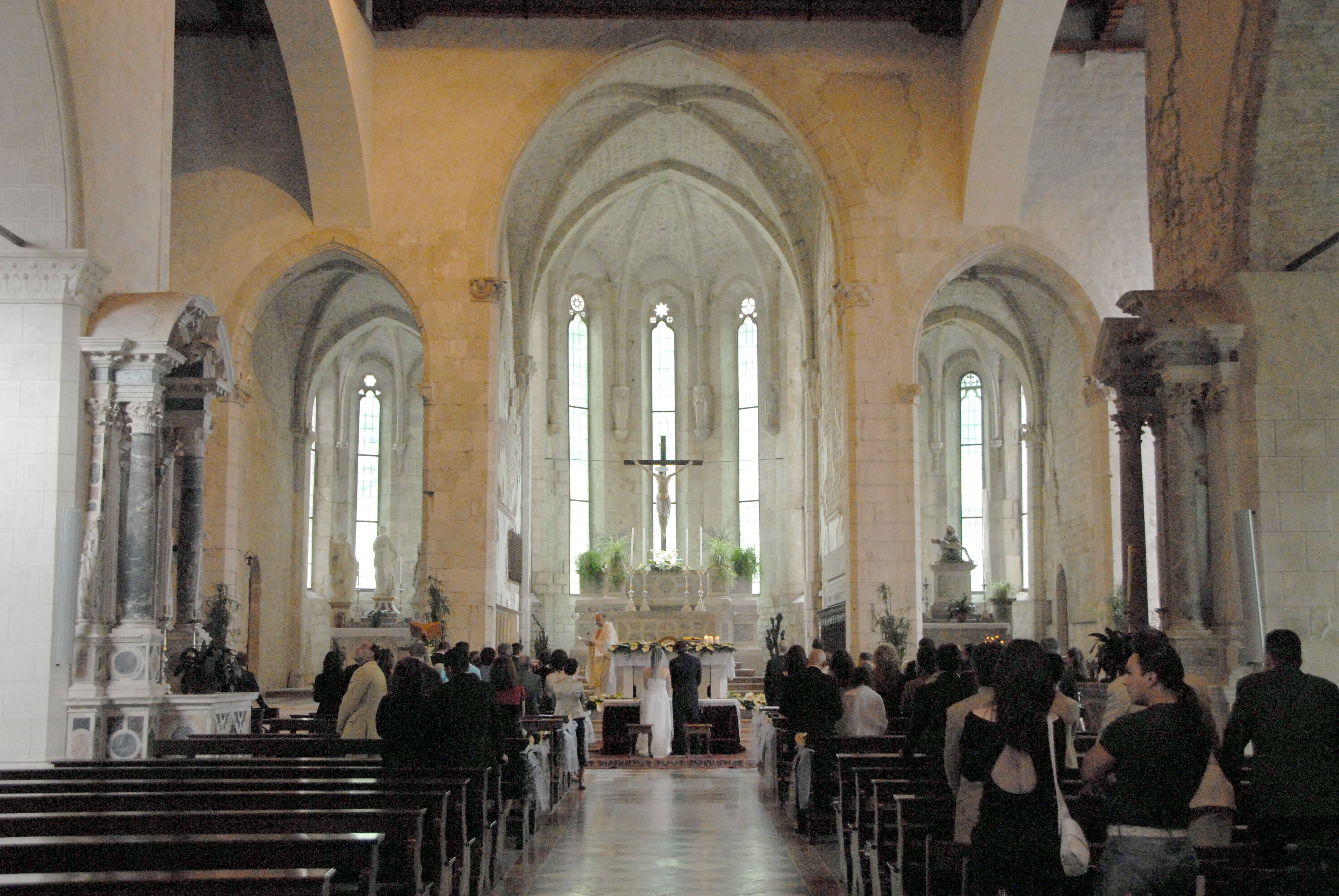 Marriage at the cathedral of Venzone, province of Udine, Friuli Venezia-Giulia, Italy